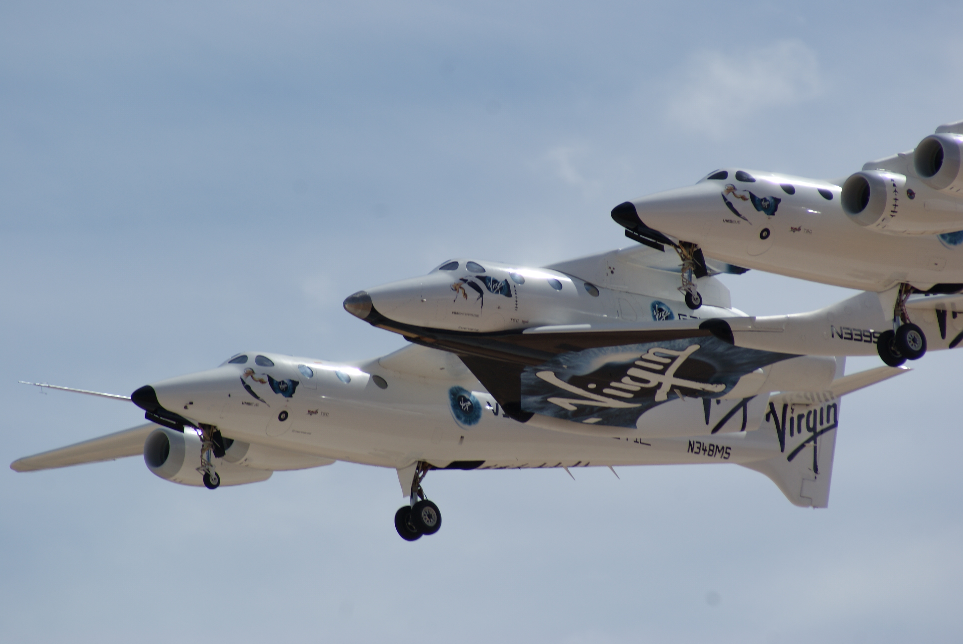 SpaceShipTwo and White Knight Two in a flyover of Spaceport America.